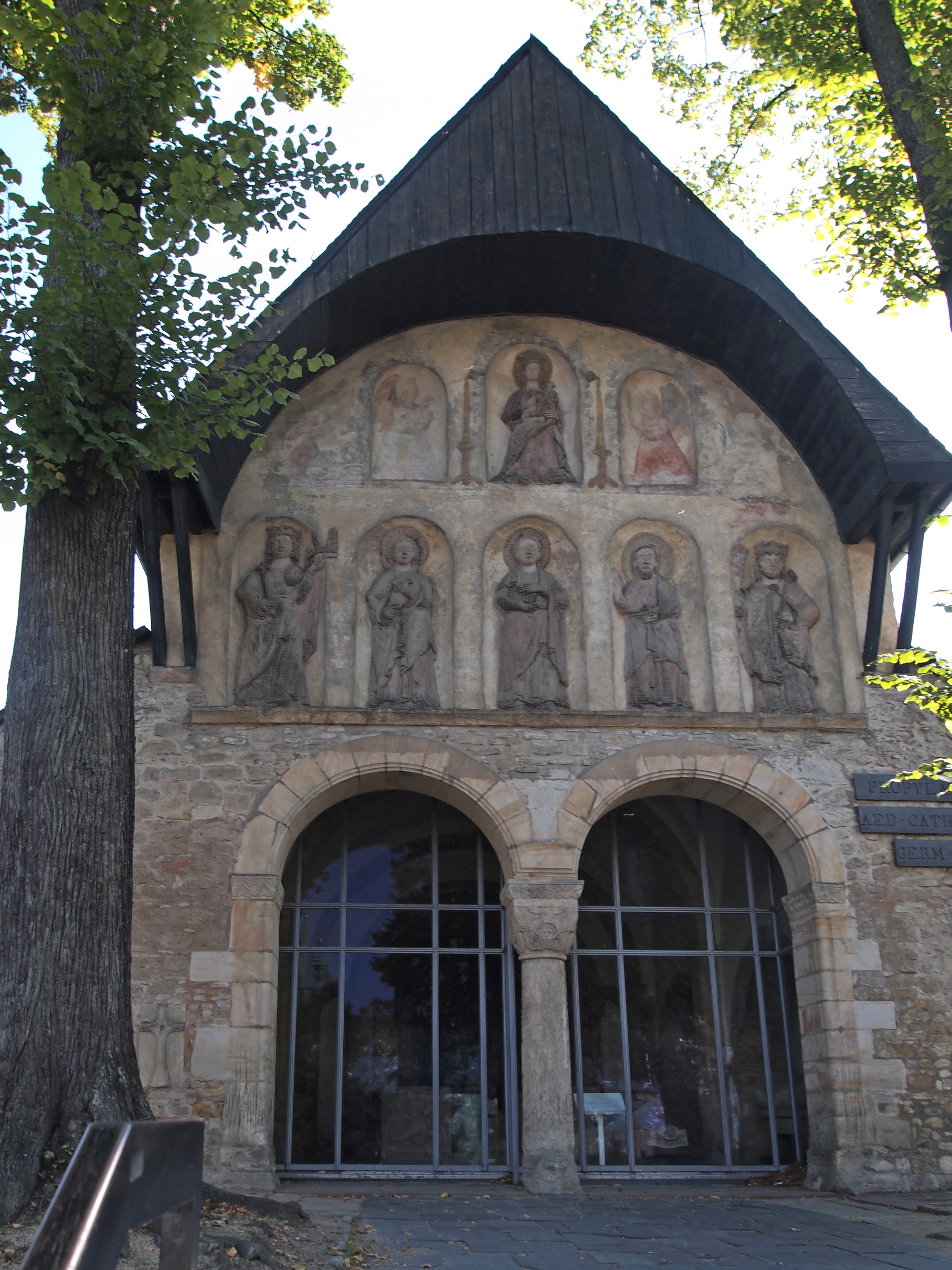 Collegiate Church Vestibule in Goslar, Germany